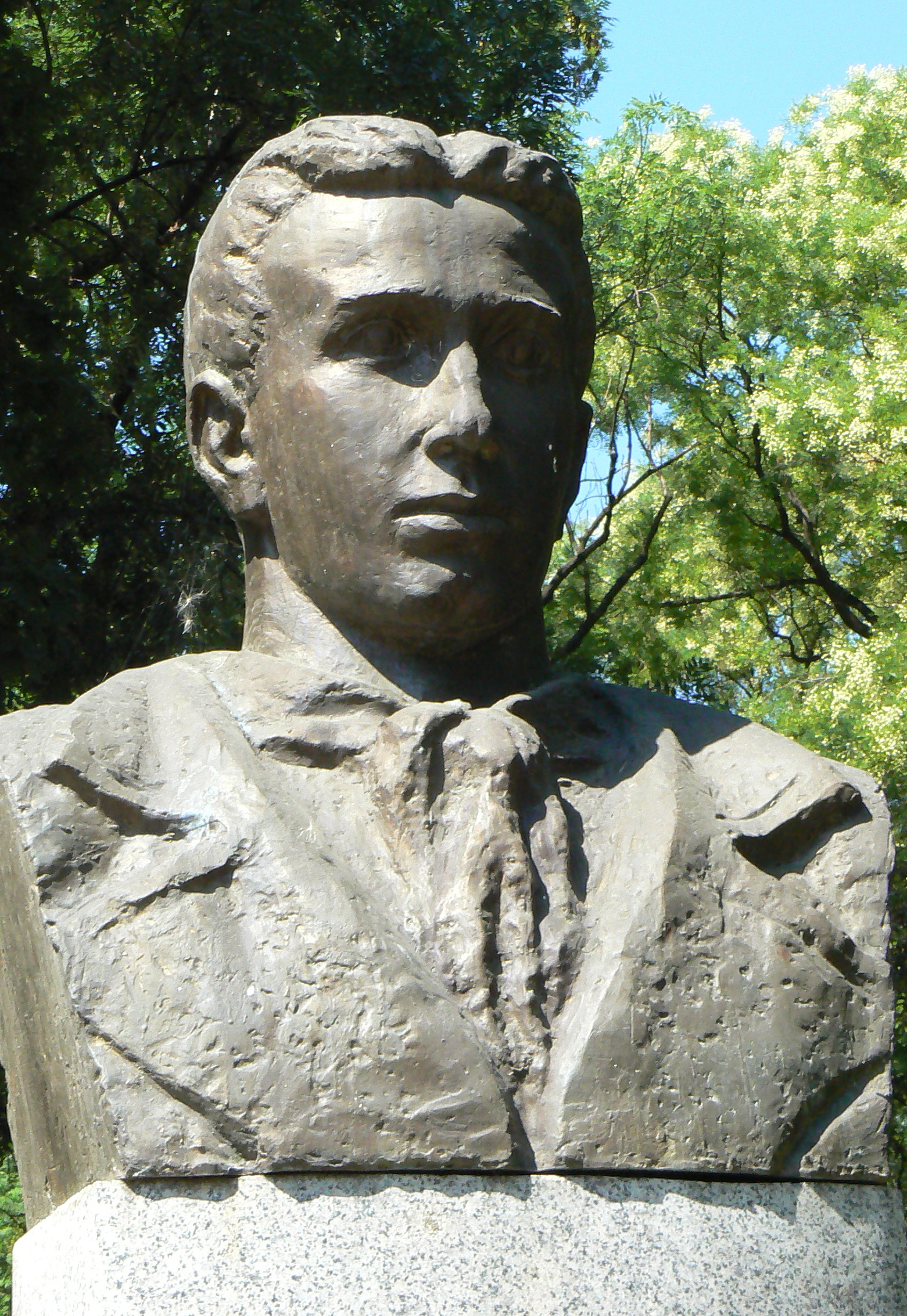 Monument of Bulgarian revolutionist Todor Kableshkov (1851-1876) in Borisova Garden, Sofia